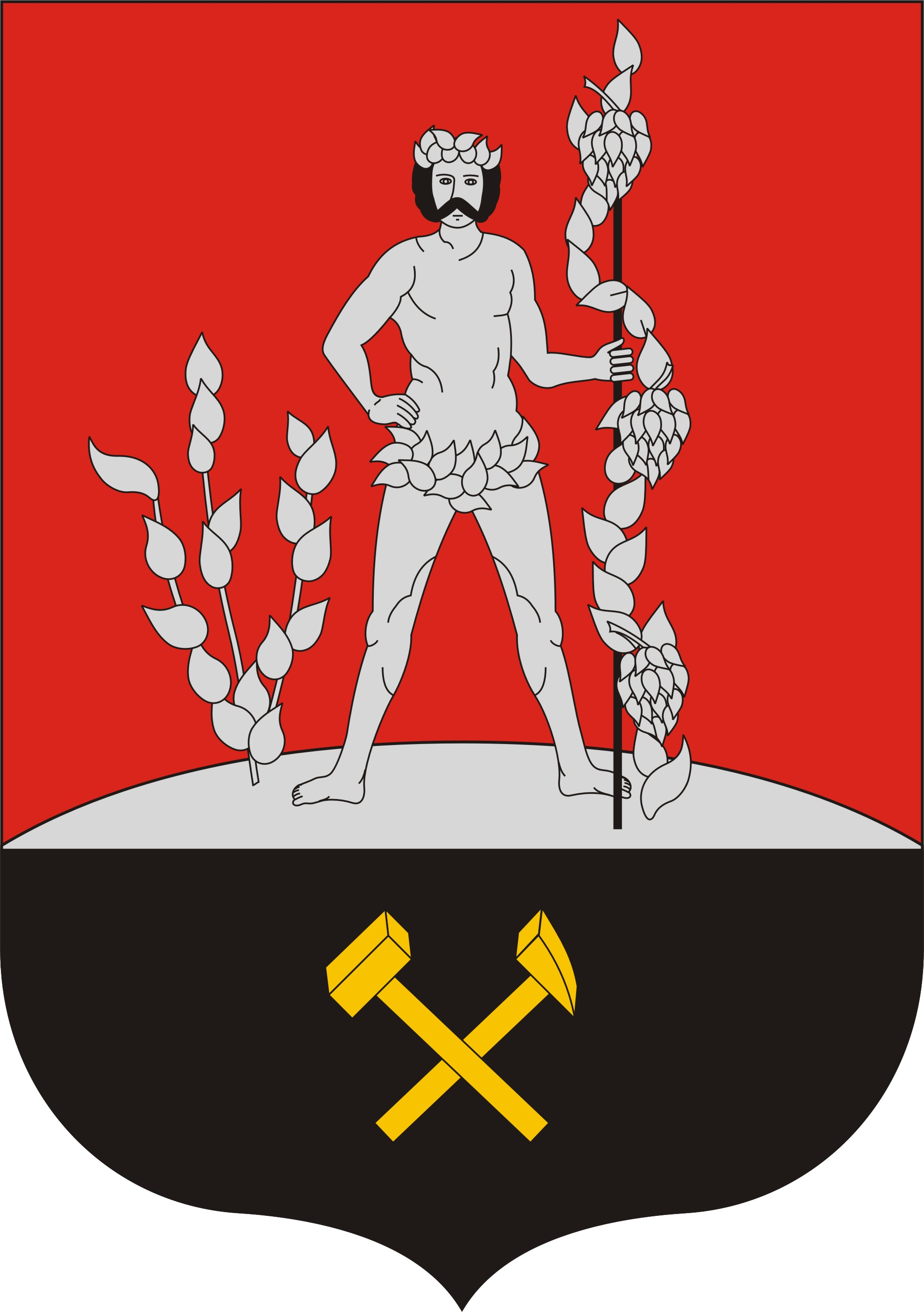 Coat of Arms of the Hungarian city Komló